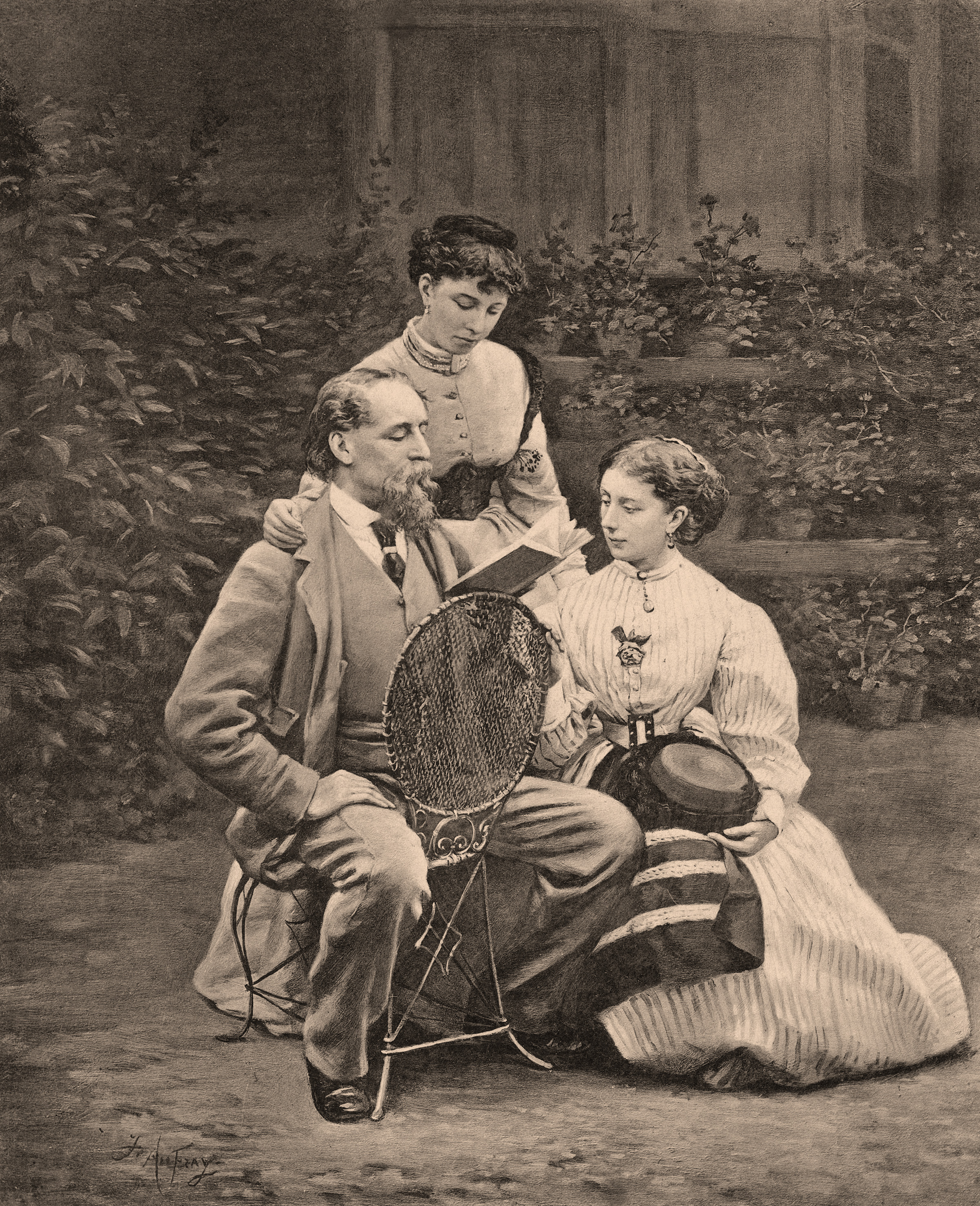 Charles Dickens with his two daughters. All images in this batch have been evaluated manually for evidence that the artist probably died before 1939, or that the work is anonymous or pseudonymous and was probably published before 1923.